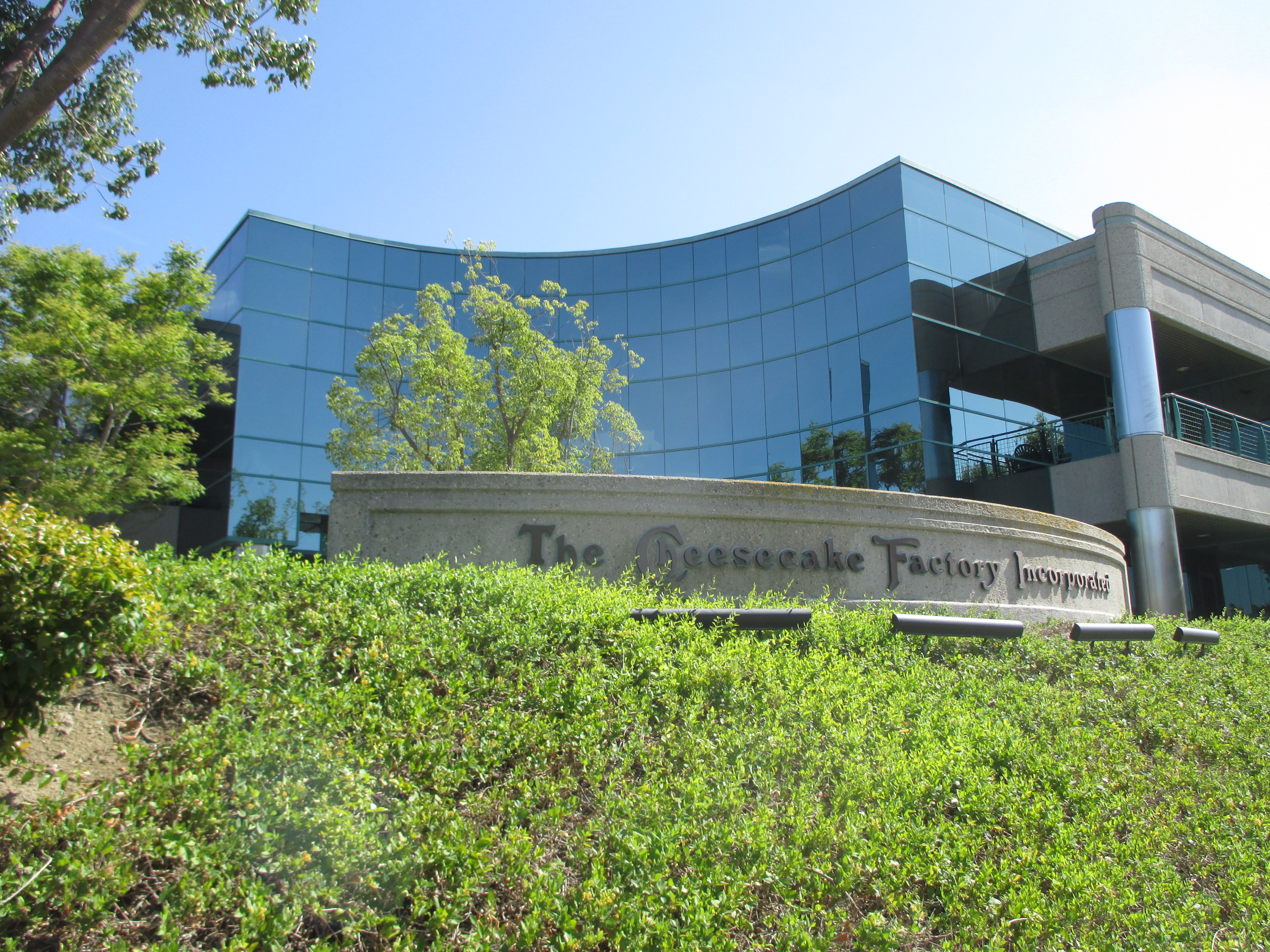 Headquarters of The Cheesecake Factory in Calabasas, California